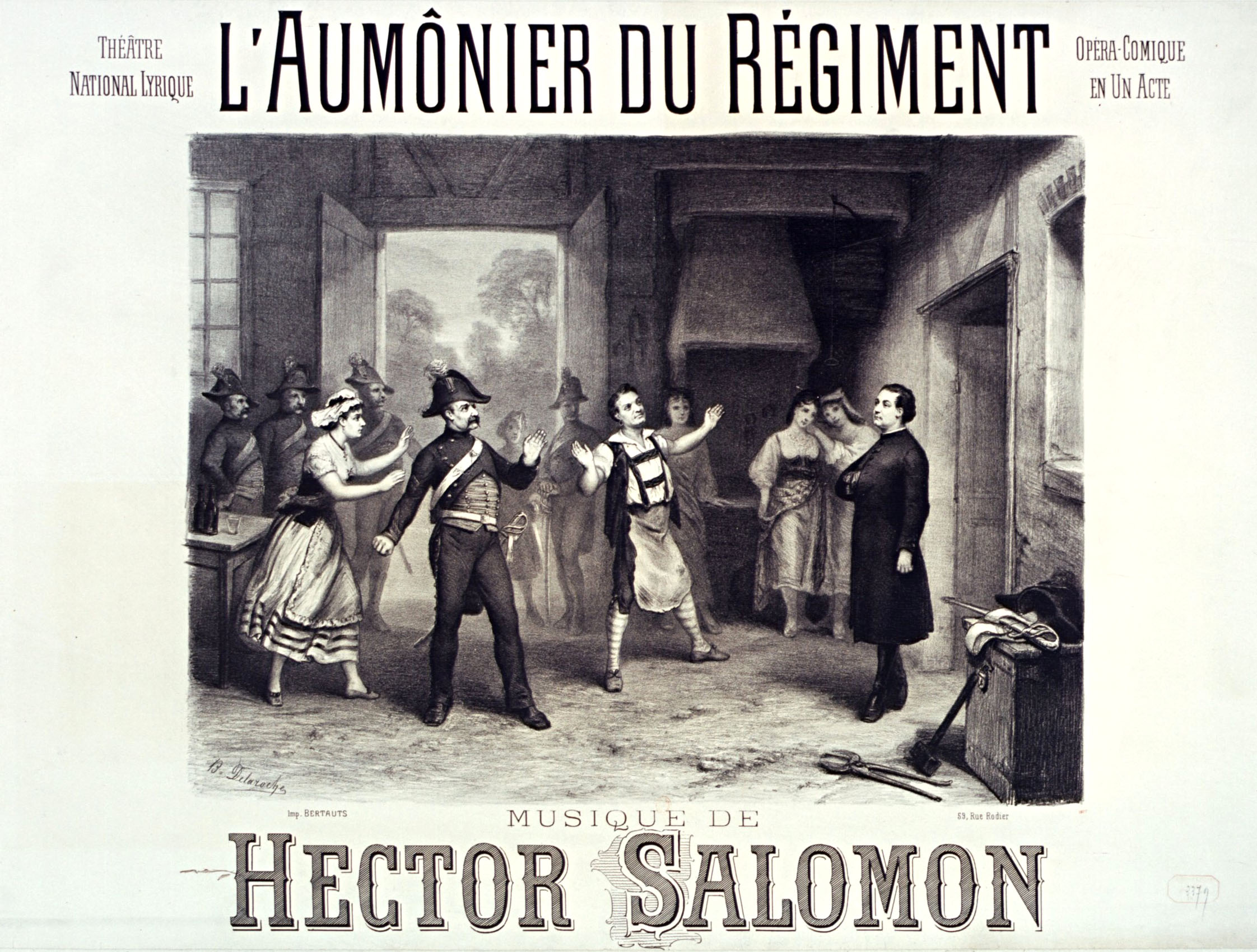 Poster for the premiere of Hector Salomon's 1-act opéra-comique L'aumônier du régiment at Albert Vizentini's Théâtre National Lyrique on 14 September 1877